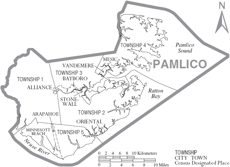 Map of Pamlico County, North Carolina, United States with township and municipal boundaries